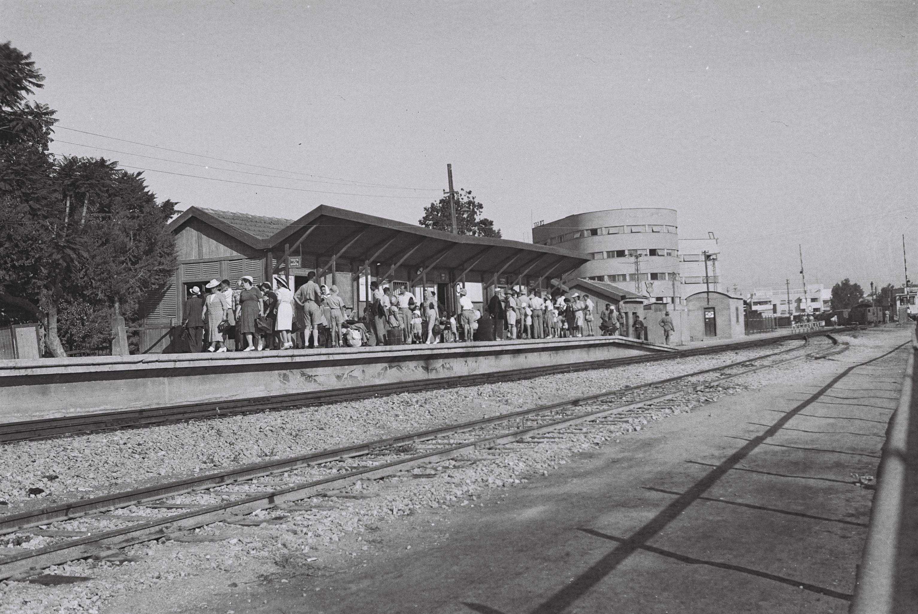 THE MAIN RAILWAY STATION IN TEL AVIV. תחנת הרכבת המרכזית בתל אביב.